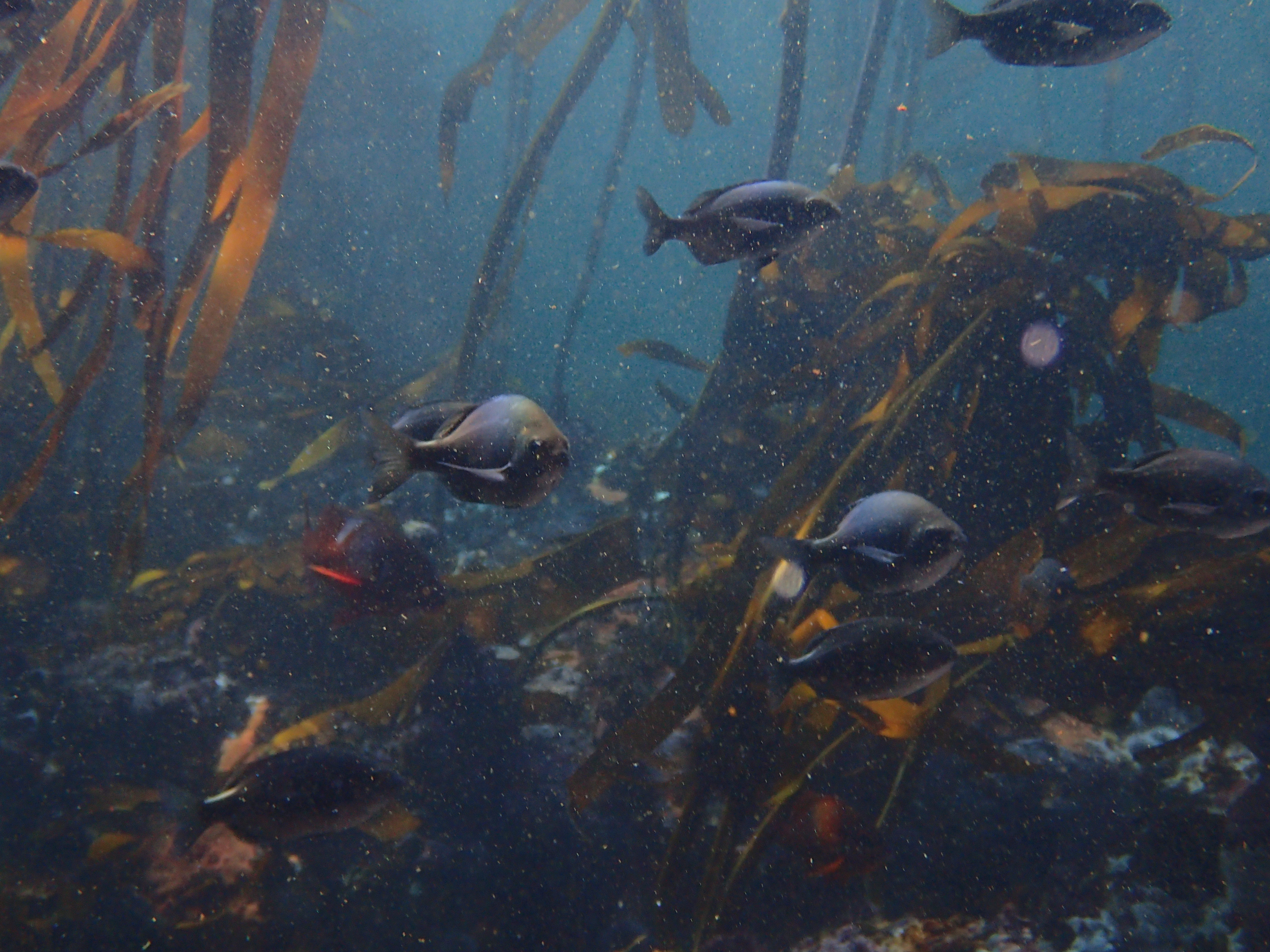 Hottentot seabream in kelp forest at Pyramid Reef